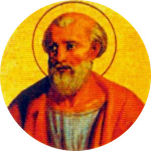 Portait of Pope Sixtus III in the Basilica of Saint Paul Outside the Walls, Rome